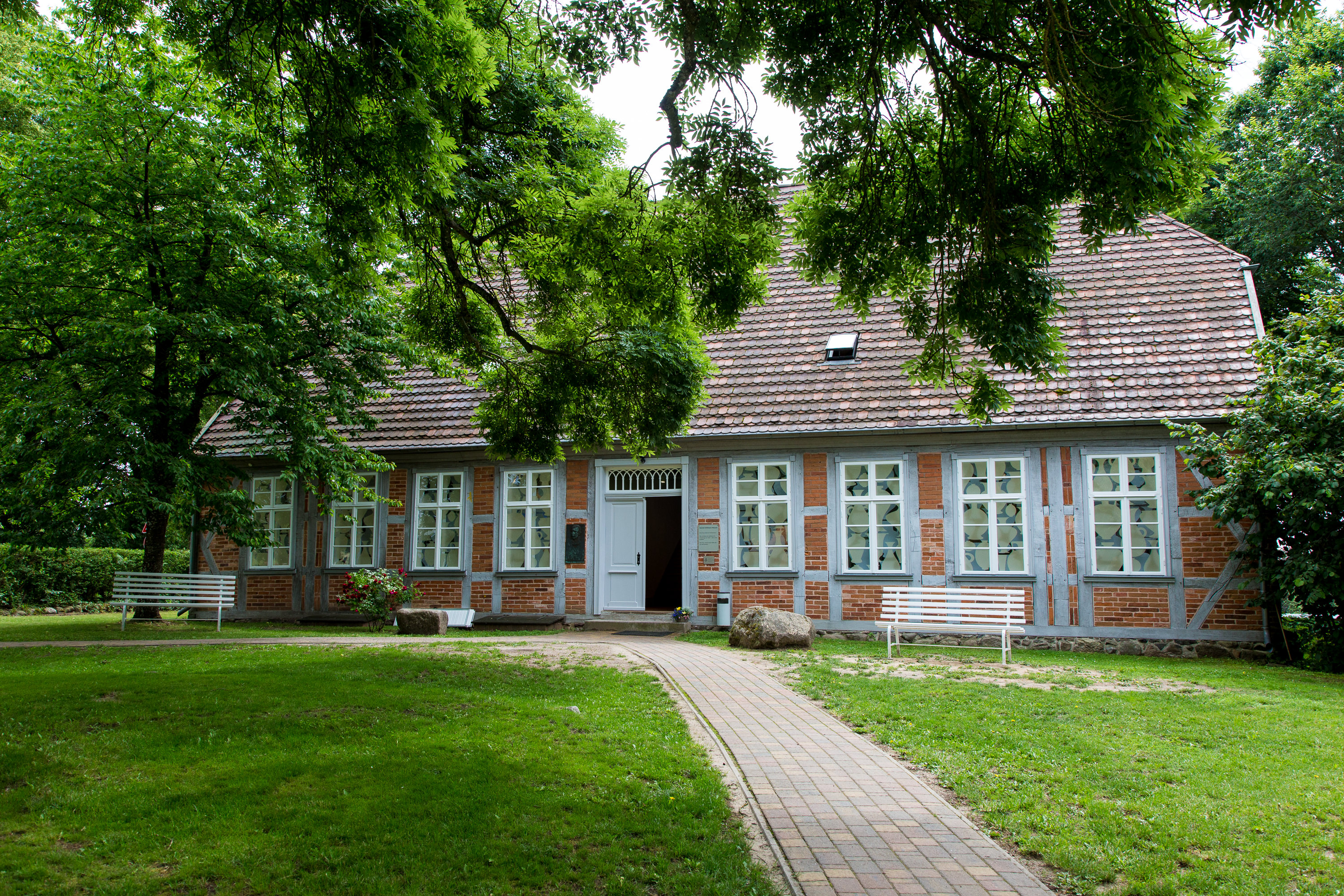 View of the Heinrich-Schliemann-Museum Ankershagen, former vicarage of the village and residence of Schliemann from 1823 to 1831